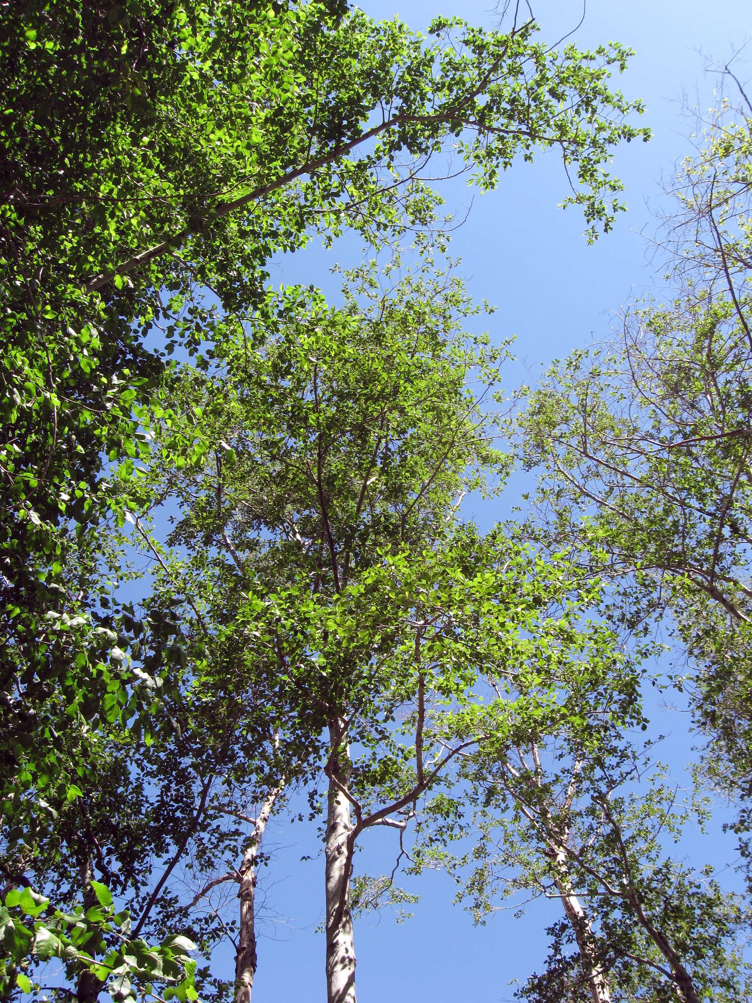 White Alder Alnus rhombifolia. Riparian trees along the San Gabriel River, within the Angeles National Forest Sheep Mountain Wilderness, in the San Gabriel Mountains, southern California.